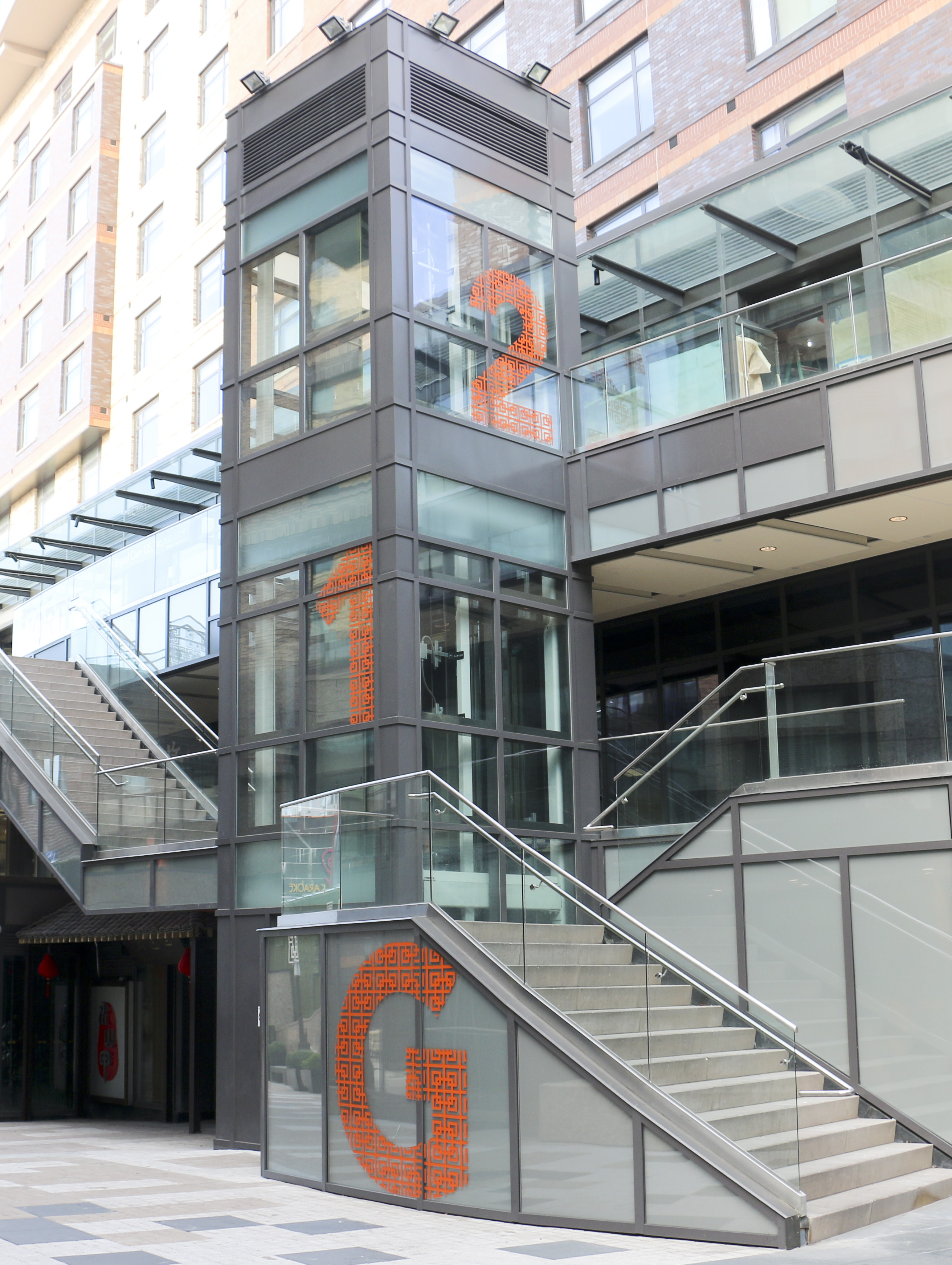 Downtown Flushing